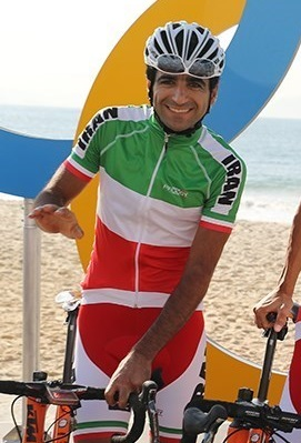 2016 Summer Olympics - Men's individual road race Cycling